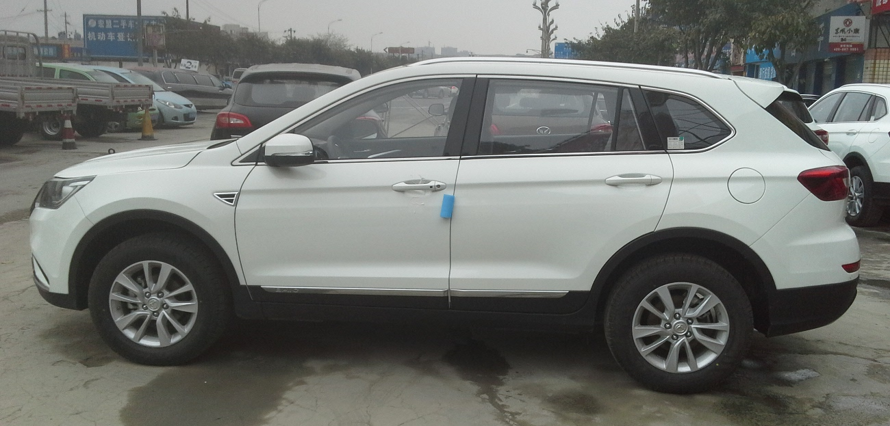 Huansu S6 photographed in Chengdu, Sichuan province, China.